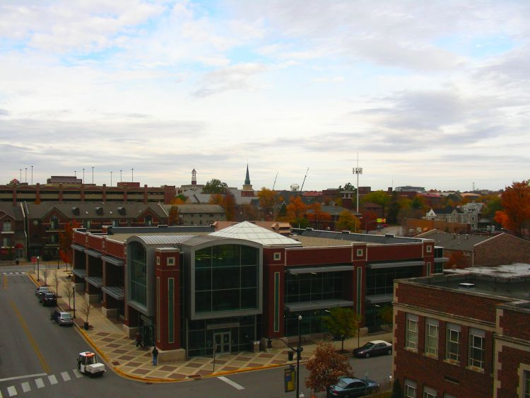 urban spread, including the West Laf. Public Library from atop a parking garage, Autumn